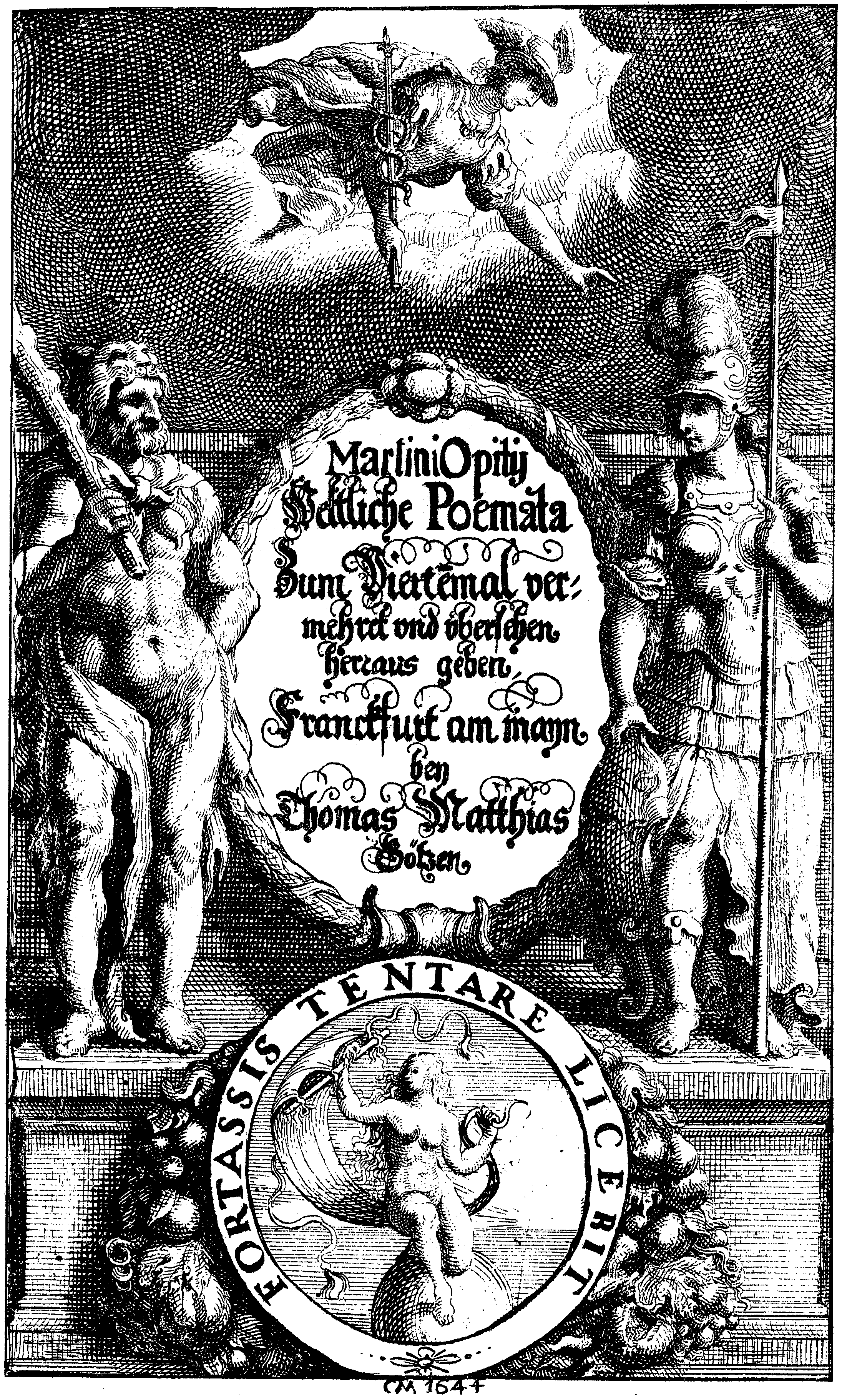 Title page of Martin Opitz: Weltliche Poemata, 1644 edition. Copperplate engraving of artist “CM” (full name not known).